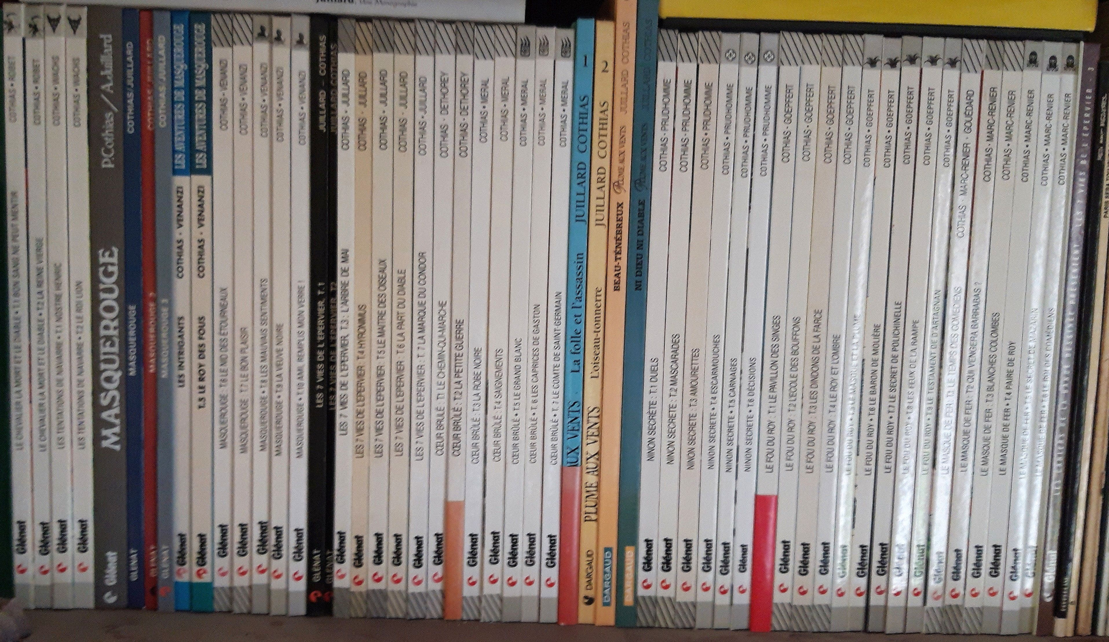 7 vies books.